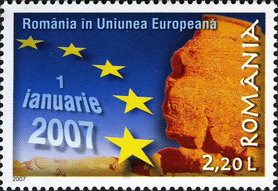 Stamps of Romania, 2007